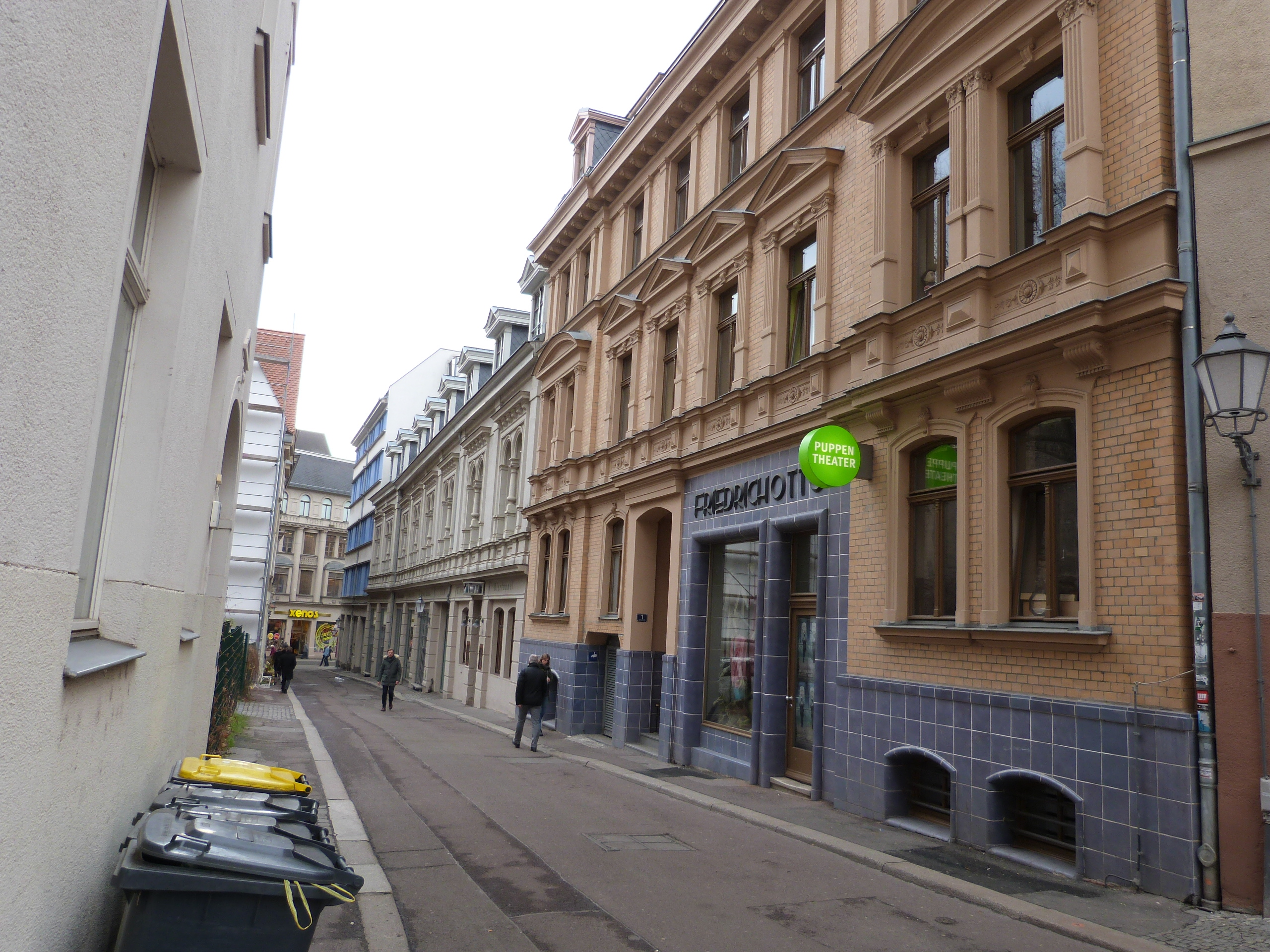 Street Schulstrasse, Halle (Saale) with the row of houses of the "Kulturinsel"